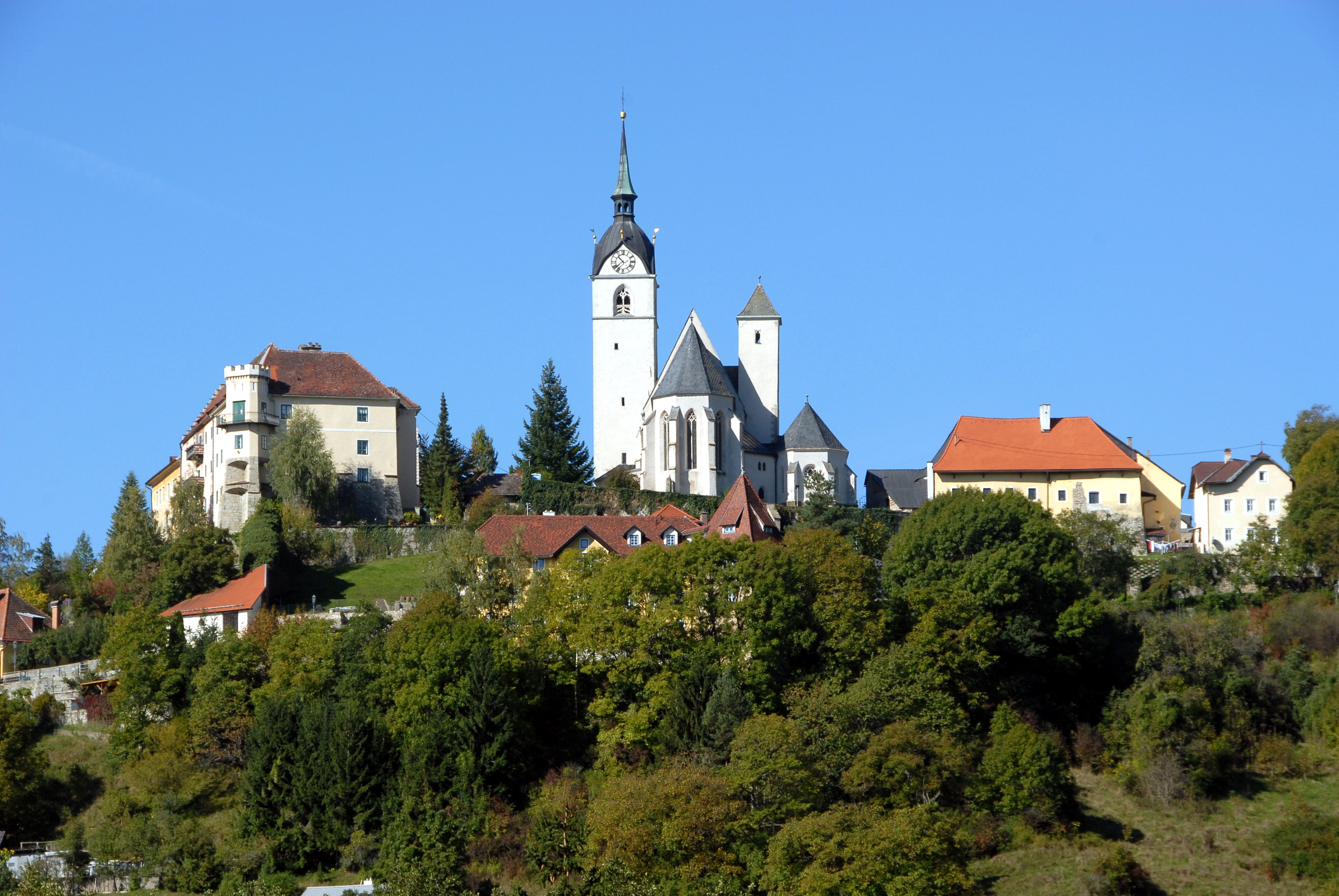 Center of acropolis with the castle (left), parish church (center) and the so-called “soccage stronghold” (right) as parts of the picturesque Old Town in Althofen, district Saint Veit on the Glan, Carinthia, Austria